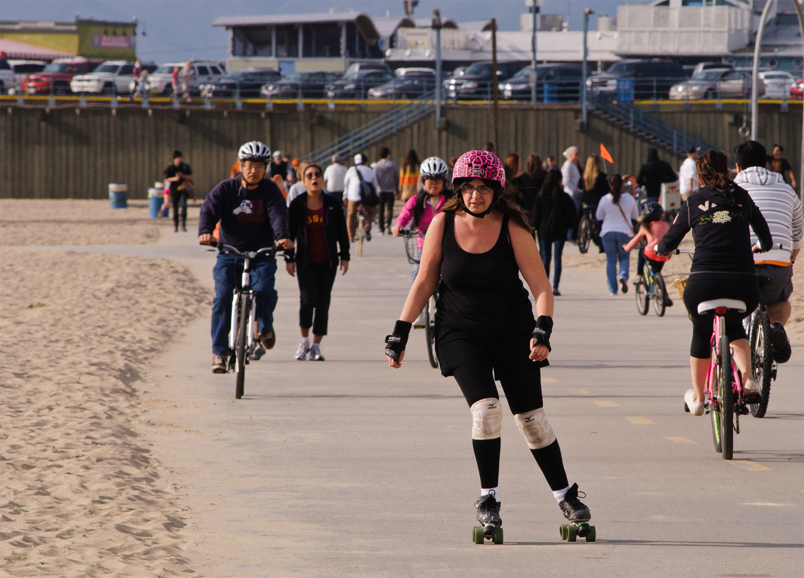 There is nothing like spending an afternoon at the beach. Especially when it is the first weekend of the year, and I live in Southern California where it happens to be sunny and mild. Also an excuse to continue playing with the compressed perspective of the telephoto lens, which I had forgotten about until a month ago. A continuous bike path runs along the beach, stretching about 20 miles, from Will Rogers State Beach just to the north, to Redondo Beach to the south. A perfect place to also ride roller skates - normally the inline types, but occasionally old-fashioned roller skates like this woman's too.